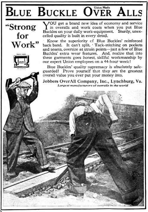 Historical advertisement, Blue Buckle Overalls, depicting railroad track laborers